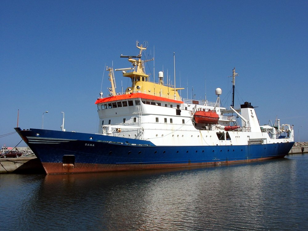 Ship Name: Dana IMO Number: 7912680 Type: Trawler/research Built by Dannebrog, Aarhus, Denmark Yard No: 175 Launch Date: 22.4.80 Date of completion: 5.2.81 Length (M): 78.43 LPP: 68.9 Beam (M): 14.70 Draft (M): 6.20 Gross Tons: 2484 DWT: 2980 Power (HP): 4640 Max. speed (kt): 16.0 Main vessel activity: Oceanography Fisheries Capacities and working spaces Dry cargo holds: 550m3 Wet laboratories (total area): 52m2 Dry laboratories (total area): 118m2